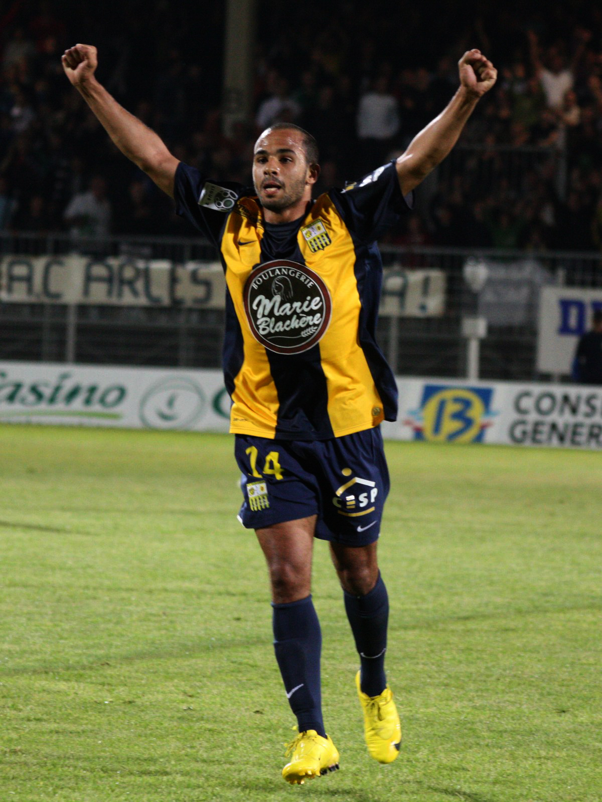 Ali Mathlouthi scores the unique goal with AC Arles Avignon against FC Nantes